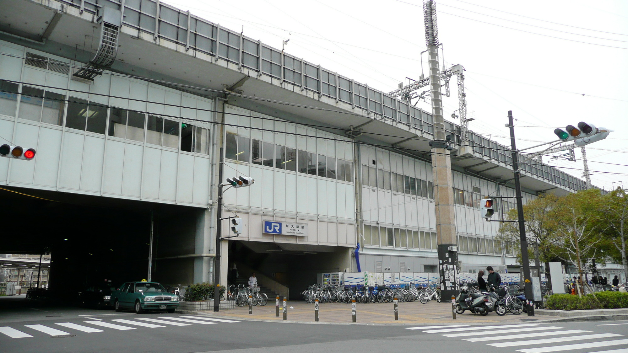 Shin-Osaka Station east entrance. / 新大阪駅東口